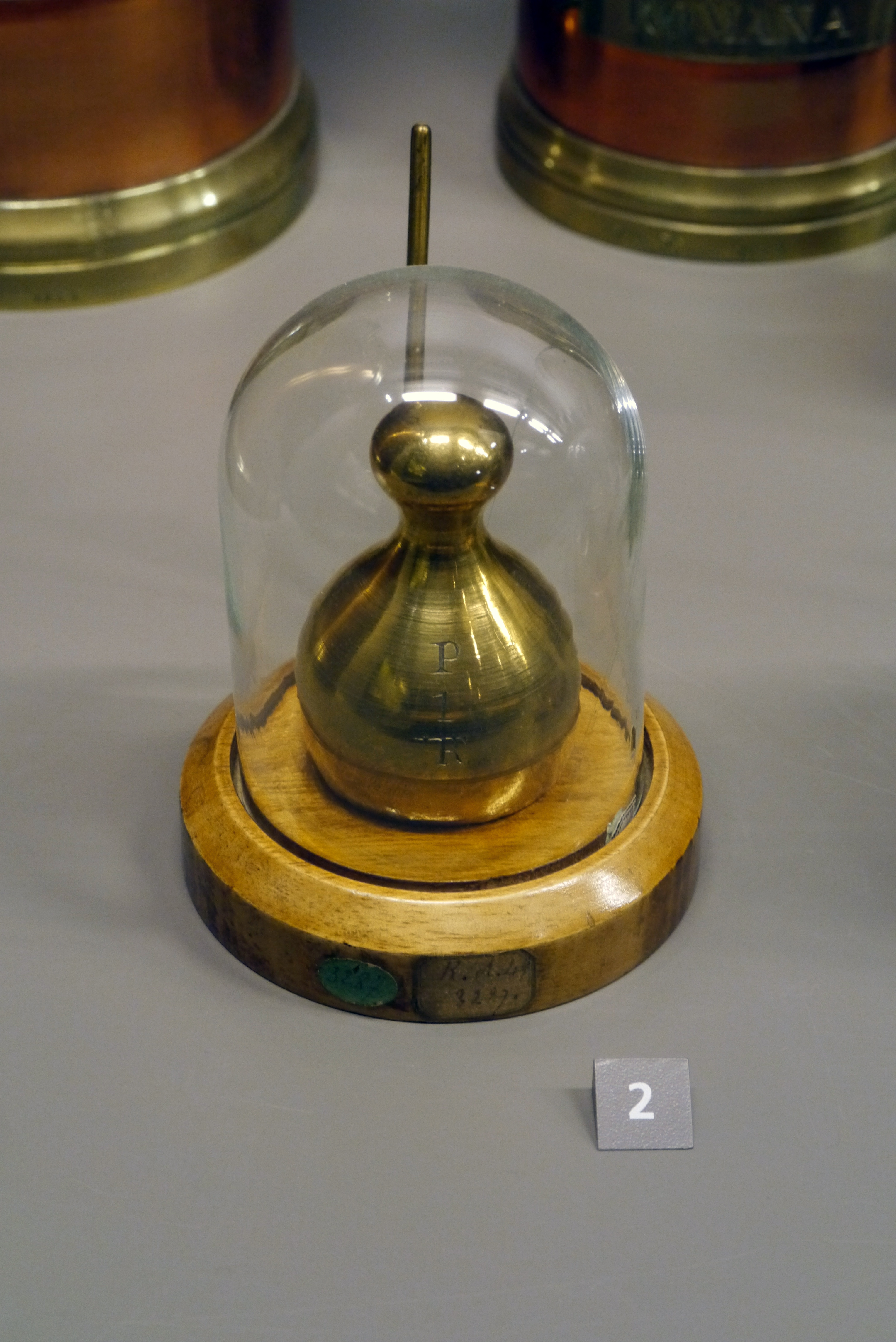 One pound avoirdupois weight, England, c. 1800.